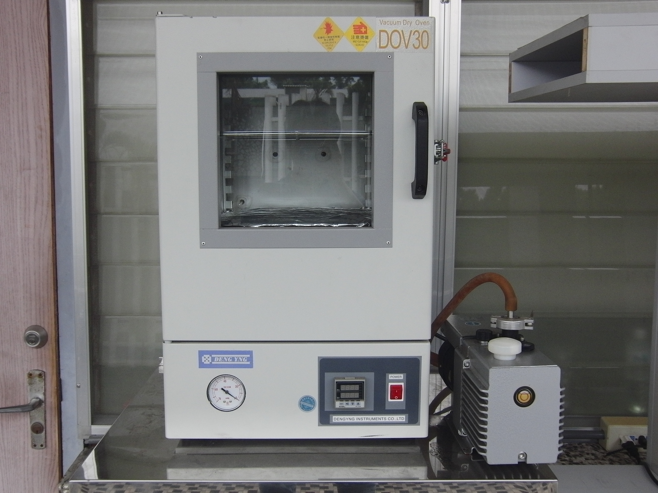 Laboratory oven